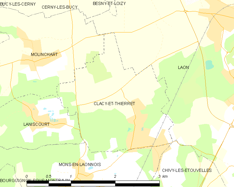 Map of French commune: Clacy-et-Thierret Map commune FR insee code 02196.png